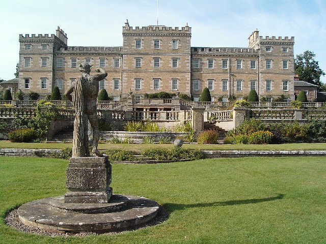 Mellerstain House and gardens — in the Scottish Borders. The sunny south face of the house overlooking the formal gardens and lake. The south facing windows have expansive views to the Cheviot Hills.